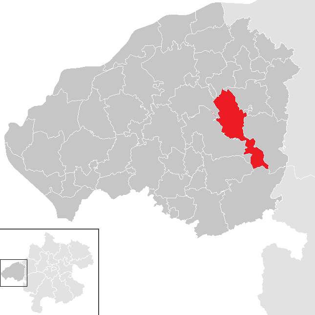 district Braunau am Inn